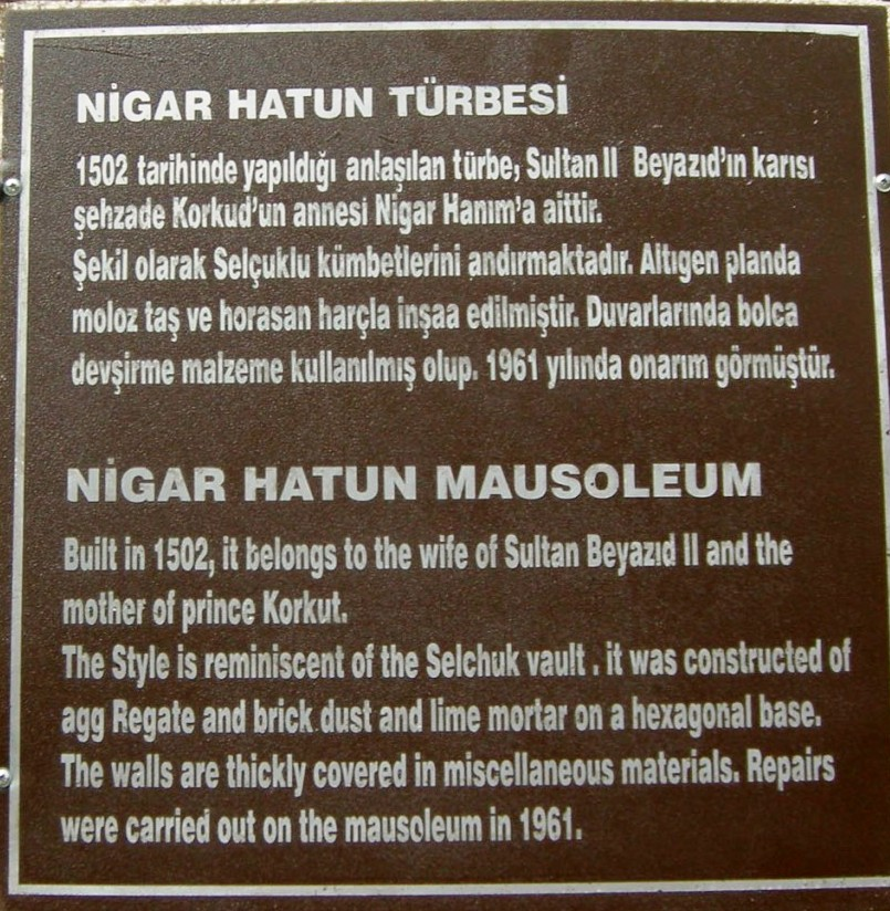 Board located outside the mausoleum of Nigar Hatun describing its construction